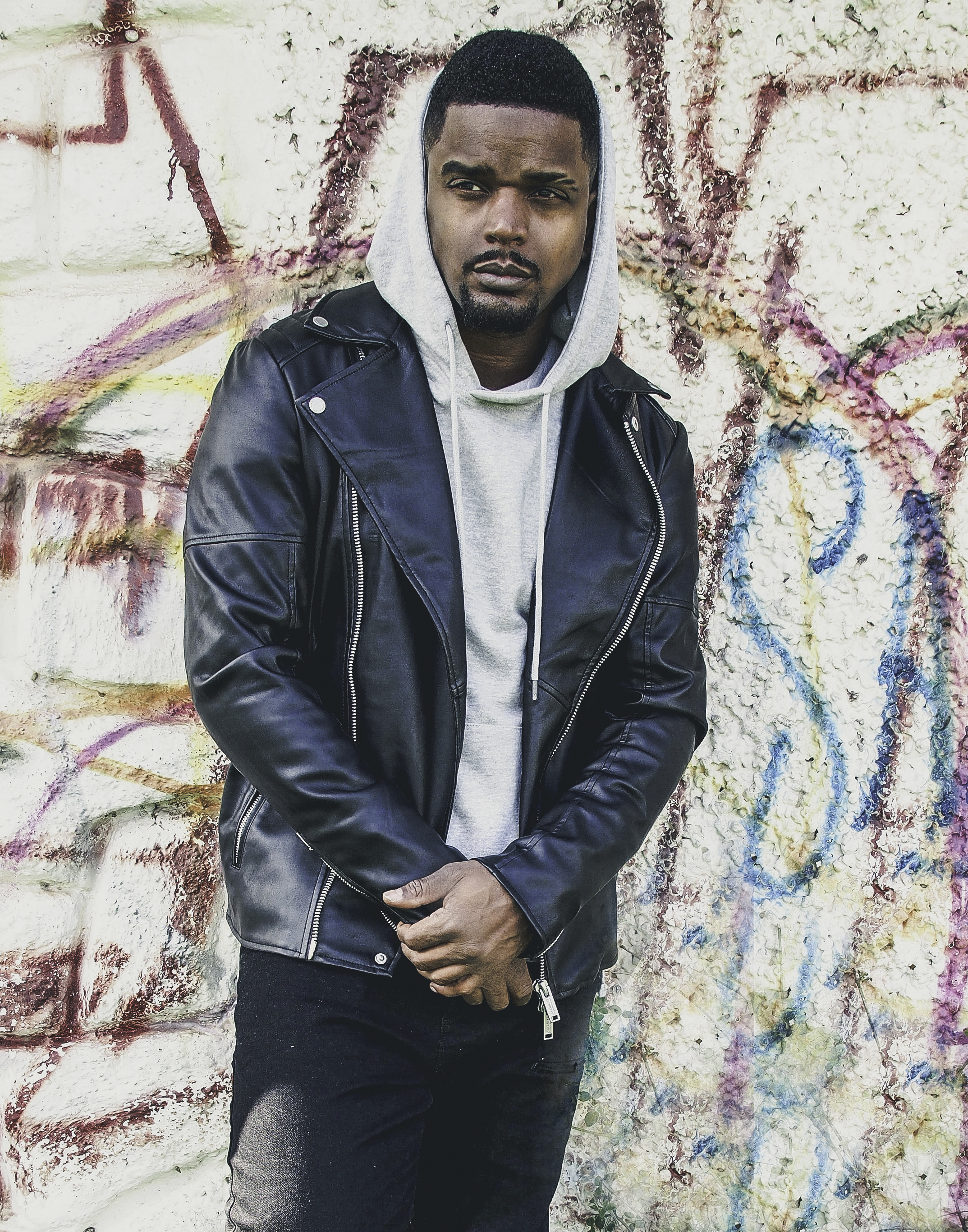 Artist actual photo